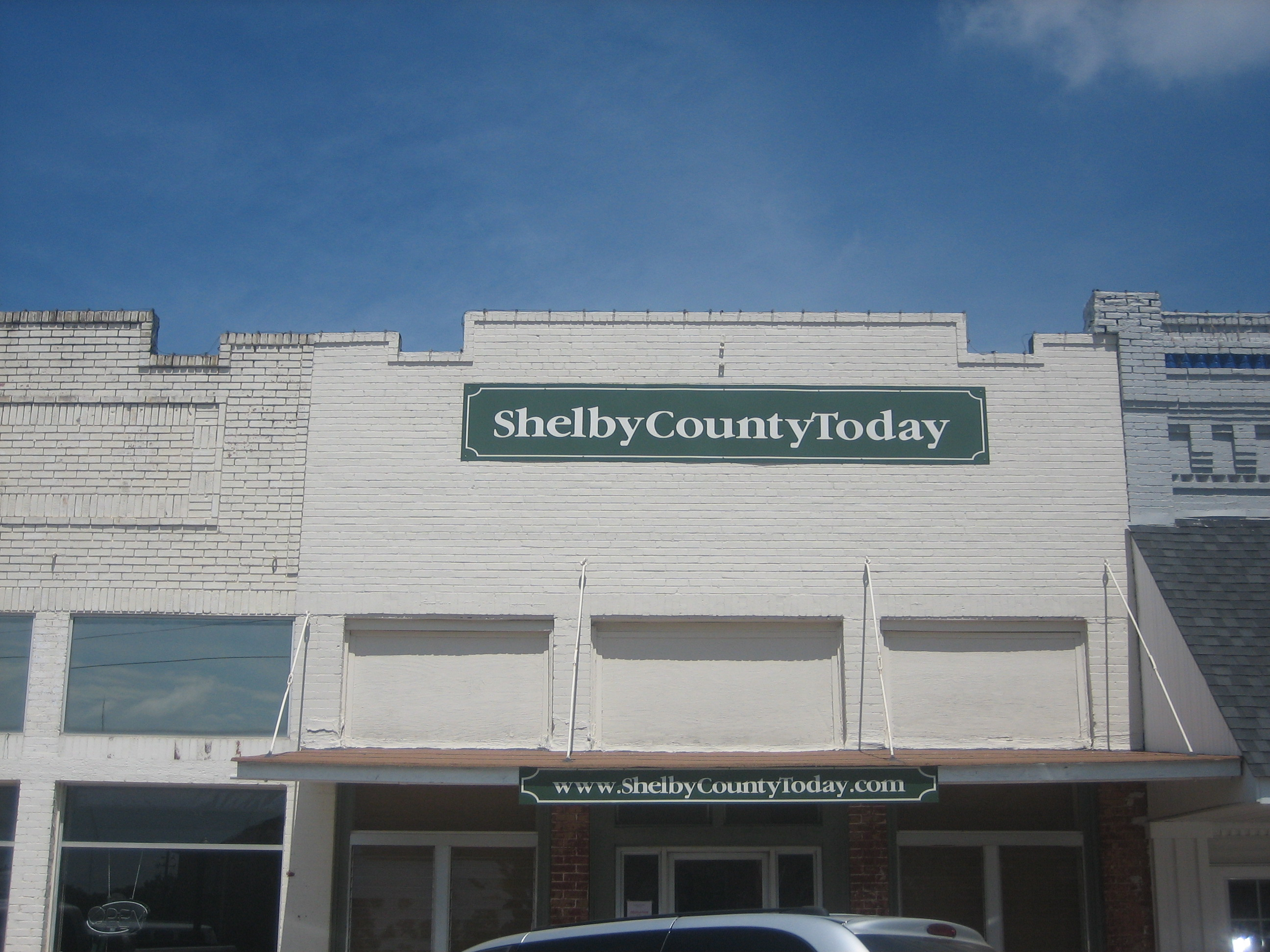 118 Nacogdoches Street on the courthouse square (Texas State Highway 7), Center, Texas. Shelby County Today (an online newspaper) moved here around January 2007, then moved to 229 San Augustine Street (also on Texas State Highway 7) sometime after this photograph was taken.